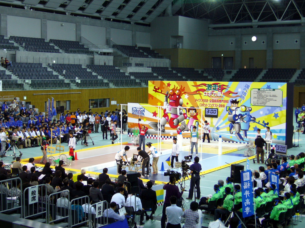 Kosen Robocon 2010 Tokai-Hokuriku regional competition